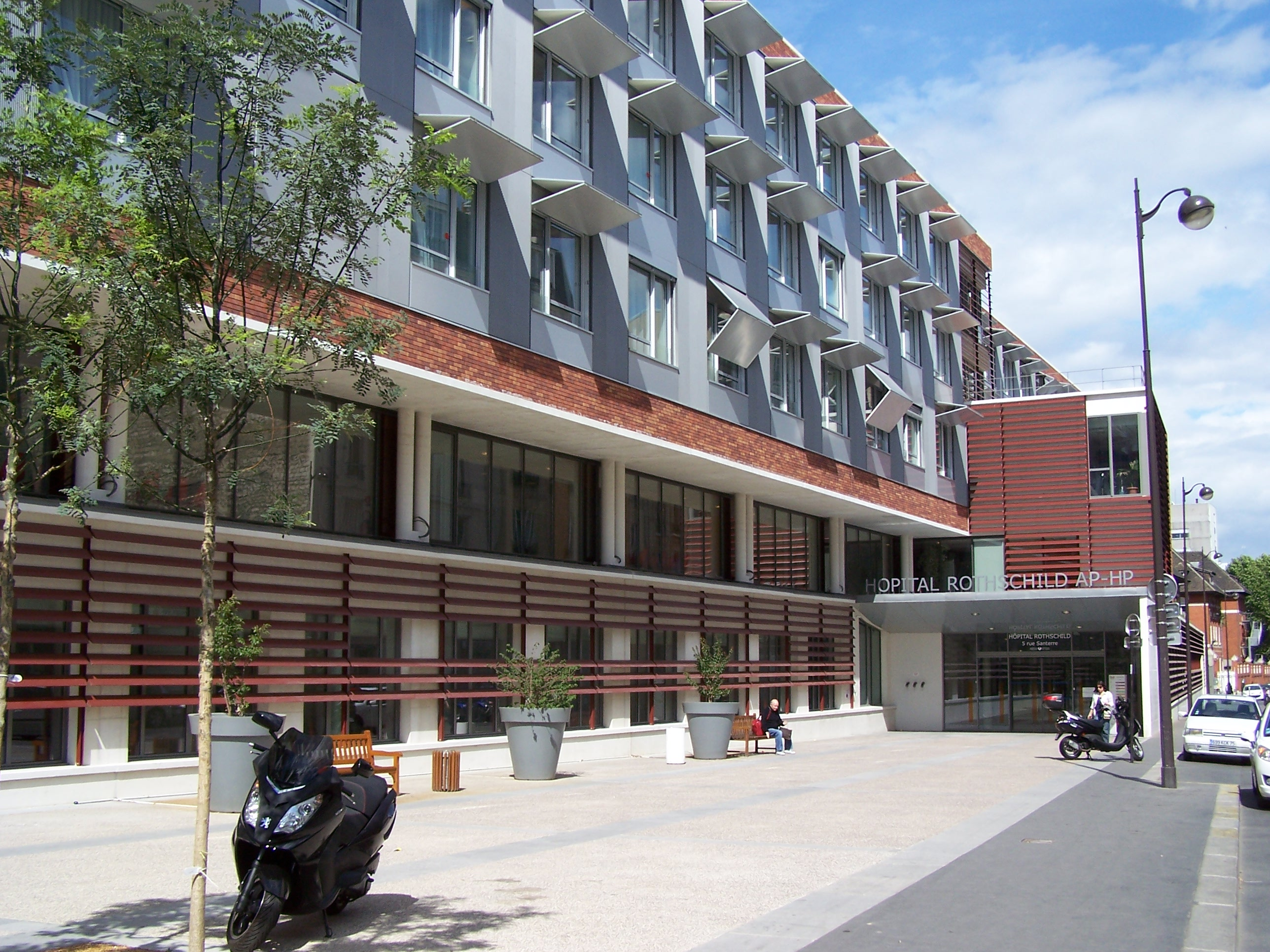 Entrance and new buildings of the Hôpital Rothschild at 5, rue Santerre in Paris